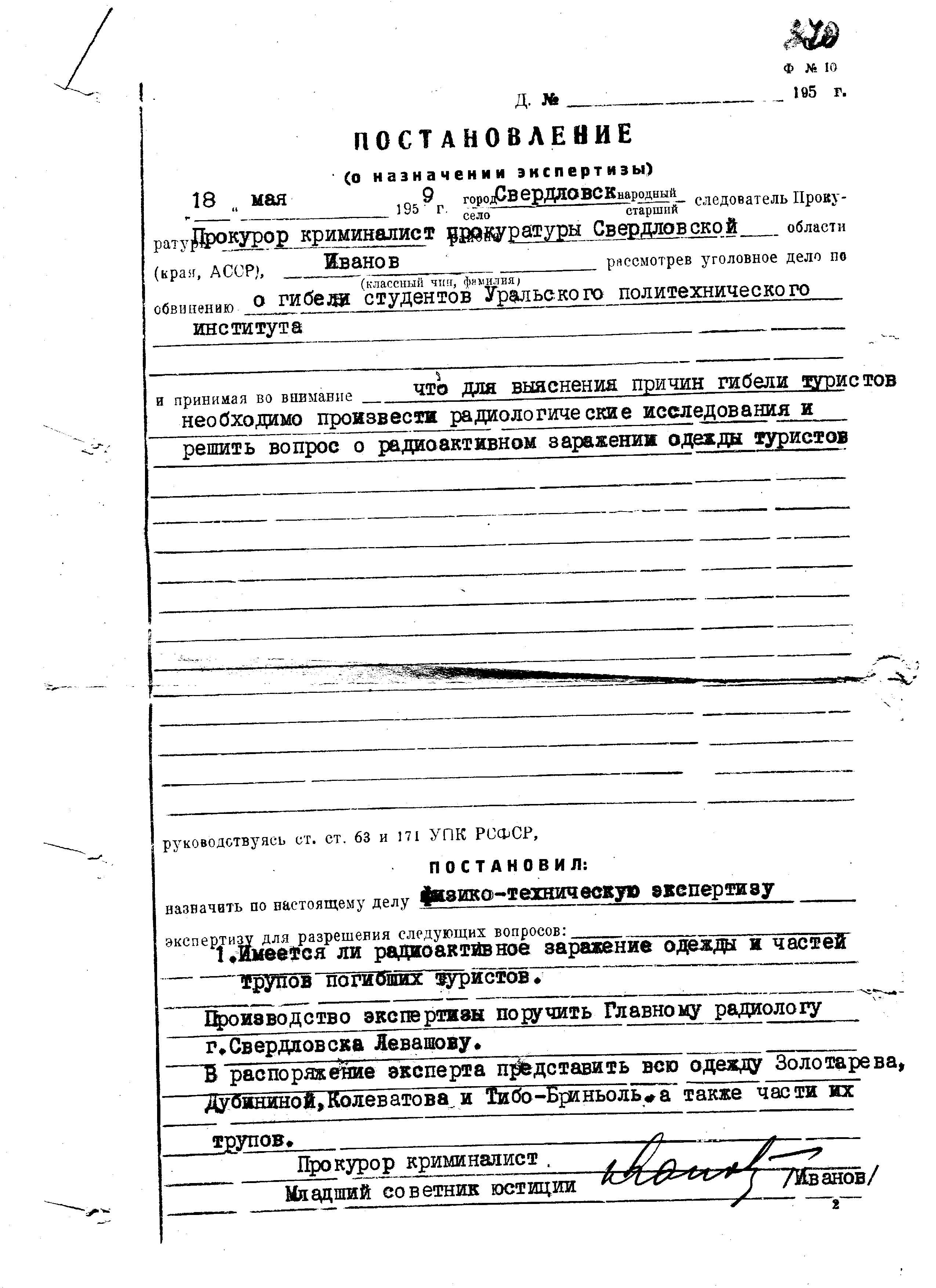 Decision on the appointment of radiological expertise in the case of "Dyatlov Pass incident"